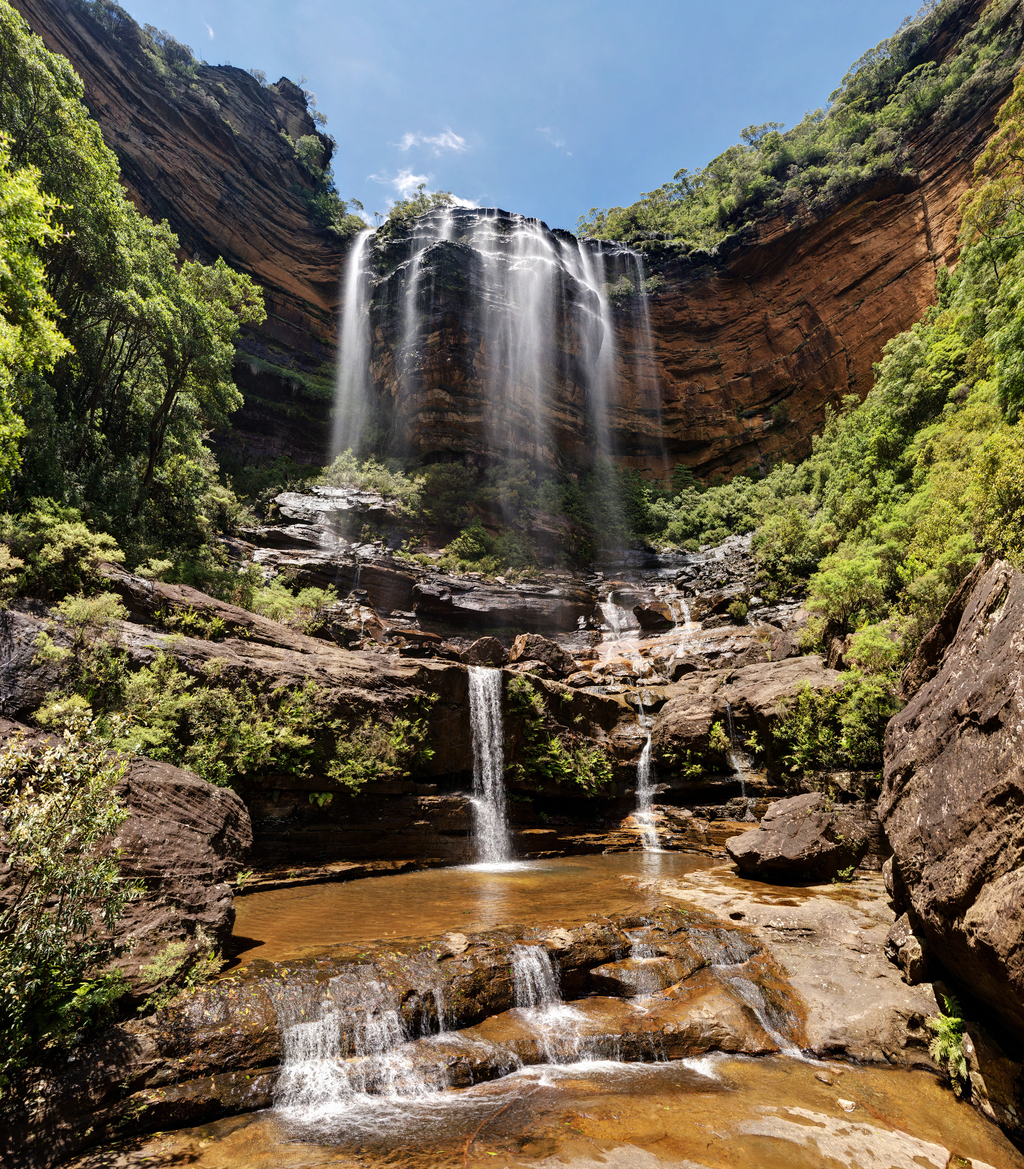 Upper Wentworth Falls as viewed along the National Pass walking track in the Jamison Valley, near the town of Wentworth Falls in the Blue Mountains, Australia.